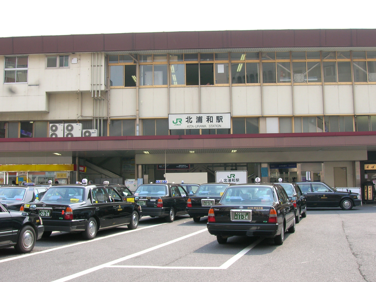 East Exit of Kita-Urawa Station